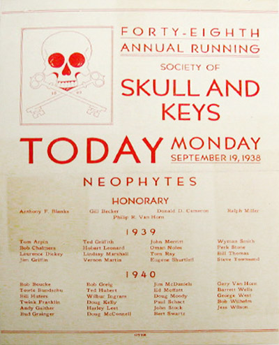 A poster for the running of Skull & Keys from the 1938.